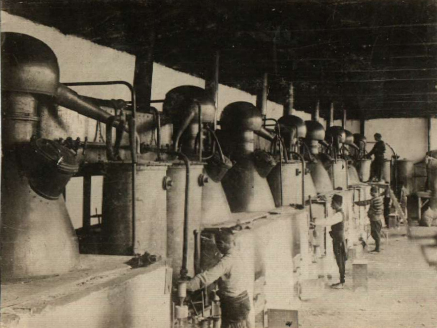 Rose oil factory, Bulgaria